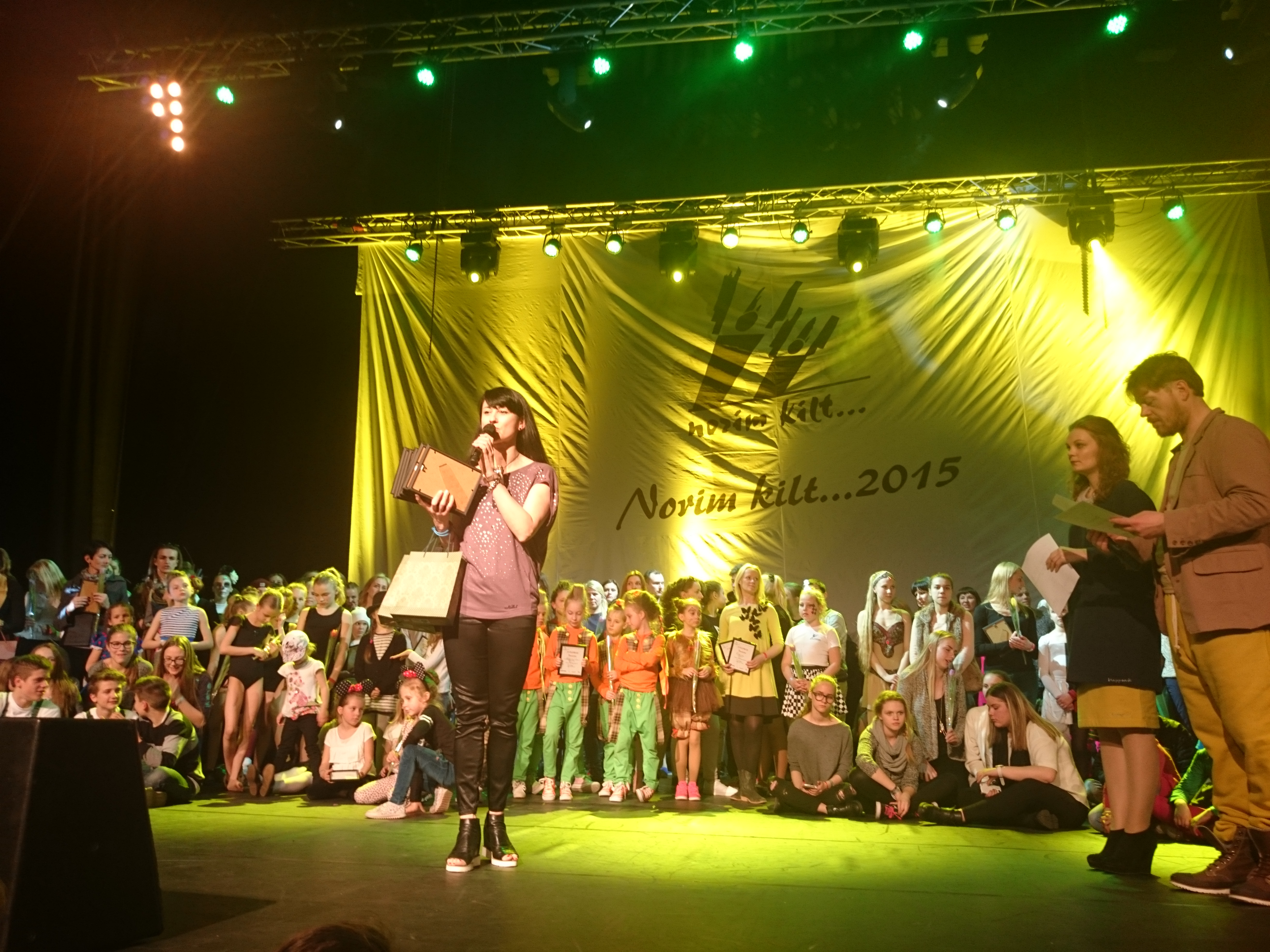 Norim kilt